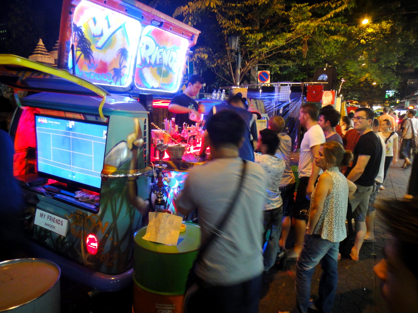 Bar truck on soi (alley) Rambutri, Bangkok, Thailand